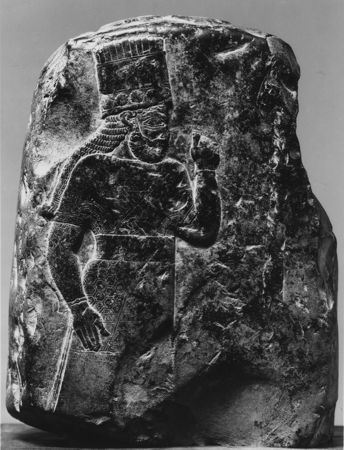 A "kudurru," the Akkadian term for boundary stone, combines images of the king, gods, and divine symbols with a text recording royal grants of land and tax exemption to an individual. While the original was housed in the temple, a copy of the document was kept at the site of the land in question. This example was found at the temple of Esagila, the primary sanctuary of the god Marduk. The king Marduk-nadin-ahe is depicted with his left hand raised in front of his face; he wears the tall Babylonian feathered crown and an elaborately decorated garment with a honeycomb pattern. On the top are a sun disk, star, crescent moon, and scorpion, representing deities who witnessed the land grant and tax exemption. A snake-dragon deity emerges from a row of altars shaped like temple façades along the back.